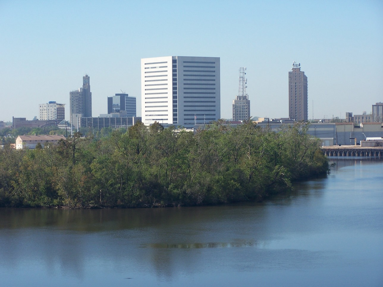 City of Beaumont